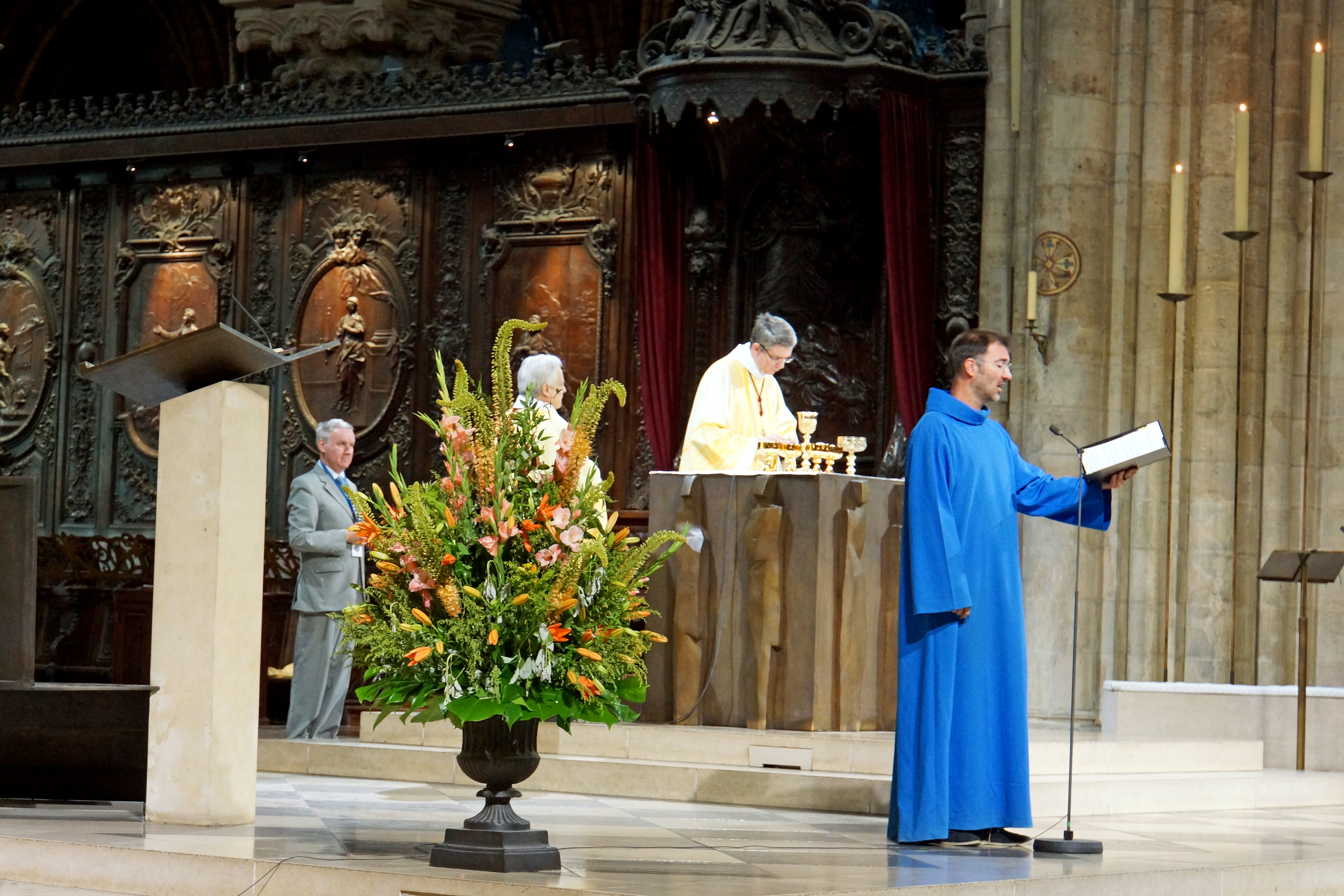 PLEASE, NO invitations or self promotions, THEY WILL BE DELETED. My photos are FREE to use, just give me credit and it would be nice if you let me know, thanks. Time to leave, a church service was being held. Notre-Dame Cathedral or simply Notre-Dame, is widely considered to be one of the finest examples of French Gothic architecture and among the largest and most well-known church buildings in the world. Construction began in 1163 during the reign of Louis VII, and opinion differs as to whether the Bishop de Sully or Pope Alexander III laid the foundation stone of the cathedral. However, both were at the ceremony in question. It is dedicated to the Virgin Mary. In the 1790s, Notre-Dame suffered desecration during the radical phase of the French Revolution when much of its religious imagery was damaged or destroyed. An extensive restoration began in 1845. The work on the Cathedral continued over the years and was completed between 1250–1345. In 1991, a major program of maintenance and restoration was initiated and took much longer than planned.